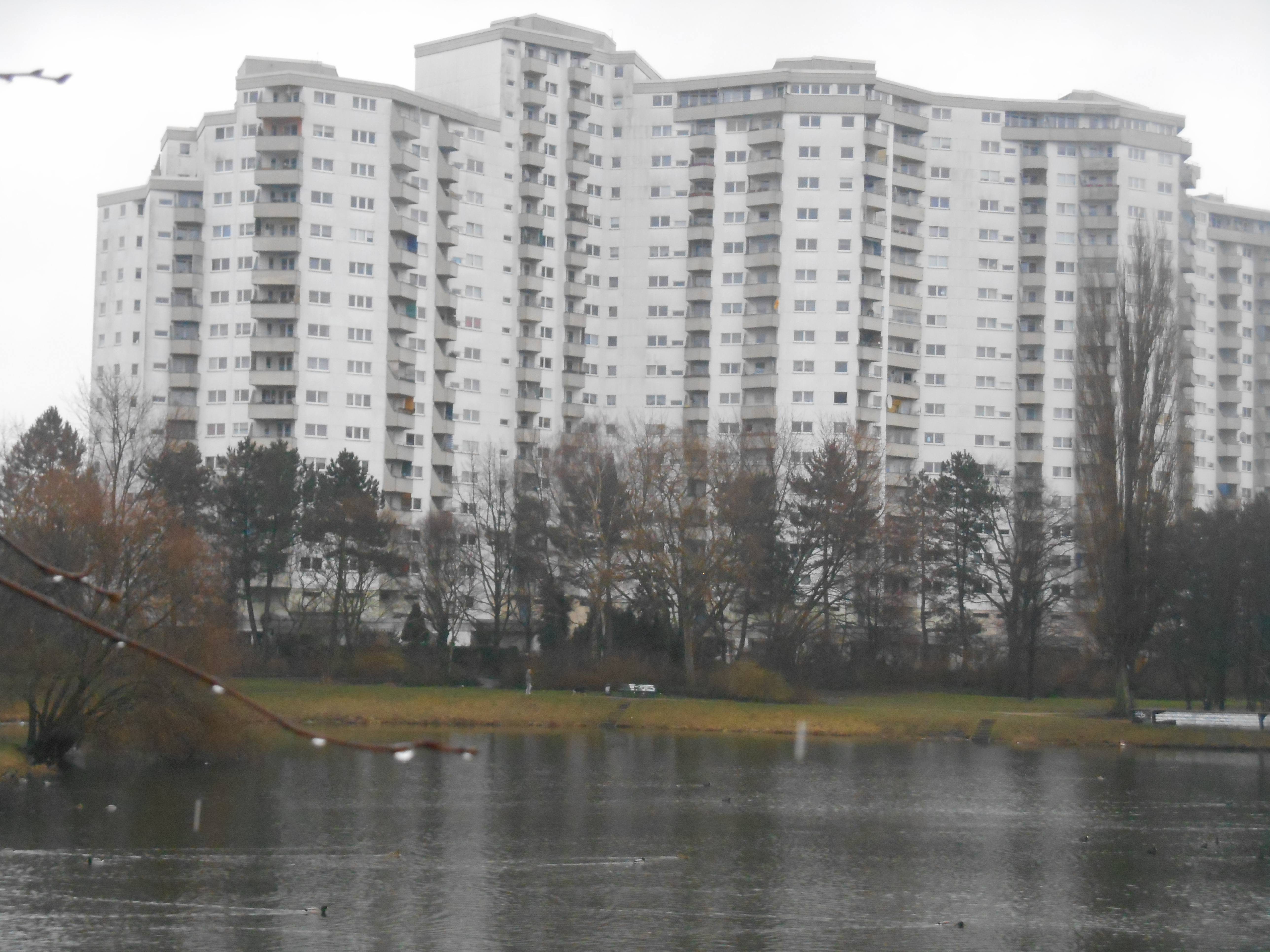 One of residential complexes built by Architekt Chen Kuen Lee (1915-2003) in Märkisches Viertel in Berlin-Reinickendorf, Berlin (Deutschland)